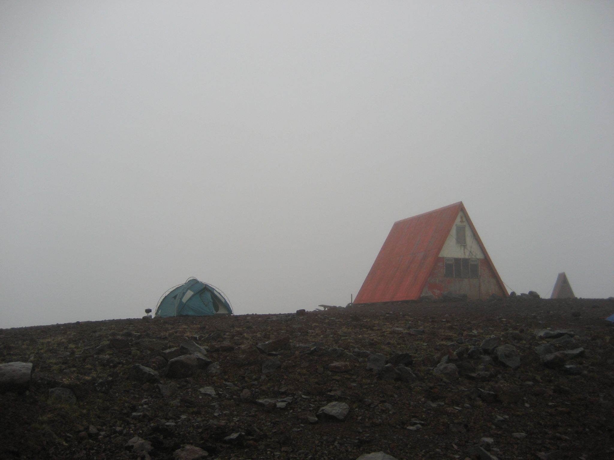 This is the old and abandoned (emergency) hut of Fimmvörðurháls... We passed the night in the tent to the left.